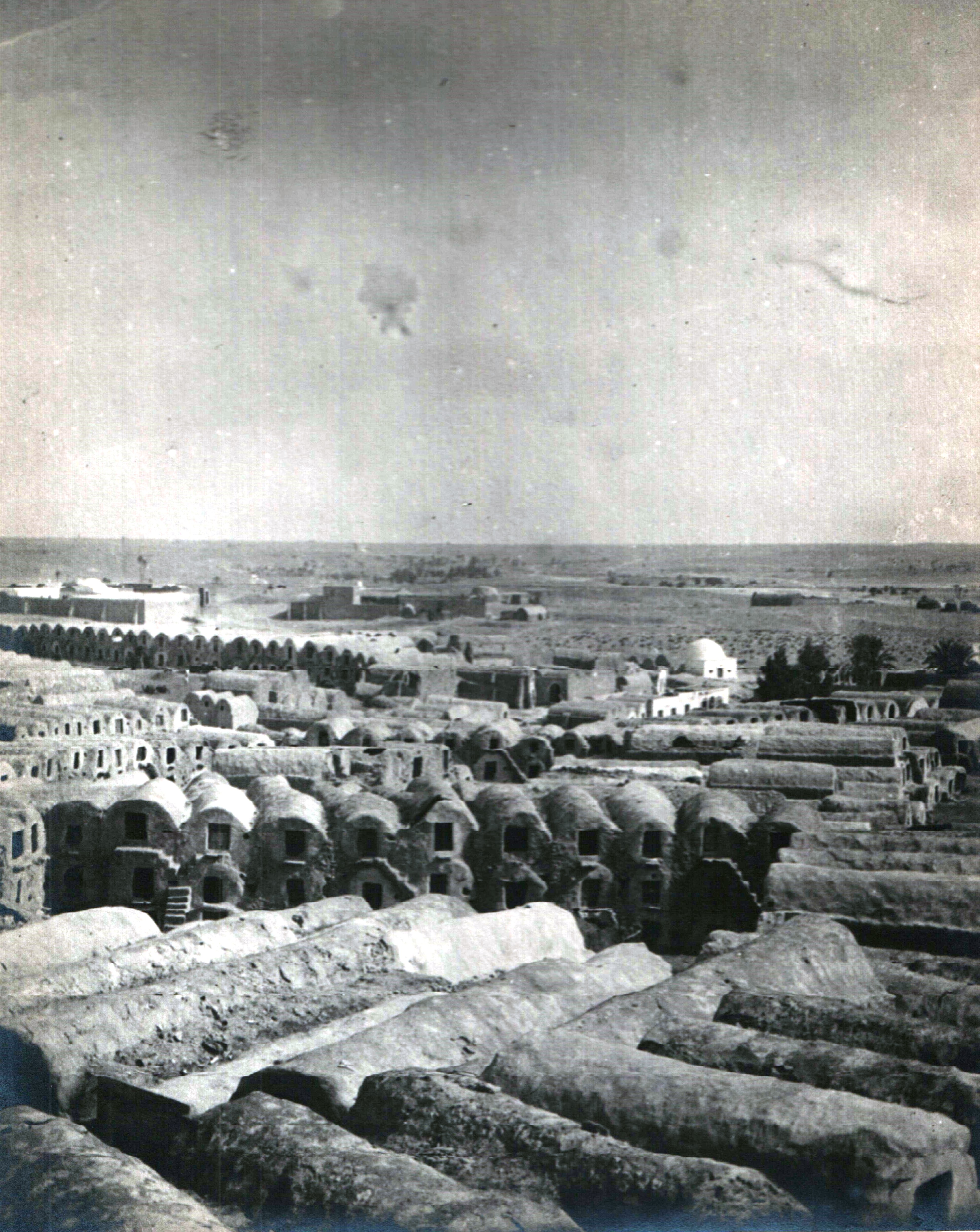 Photos of Sahara desert and other regions of Africa. Panorama of Medenine, Tunisia.